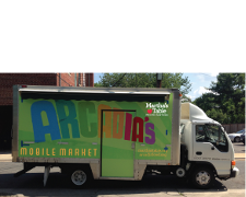 Arcadia Truck